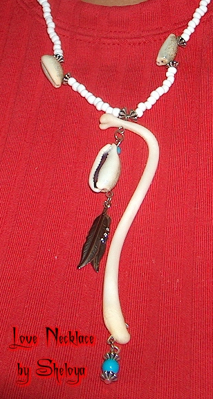 This necklace is made from a natural raccoon baculum (penis bone) and cowrie shells. These were given to women for centuries by men who wanted to let them know they were loved, and get the raccoon spirit to keep them faithful. They are also very powerful protection charms.